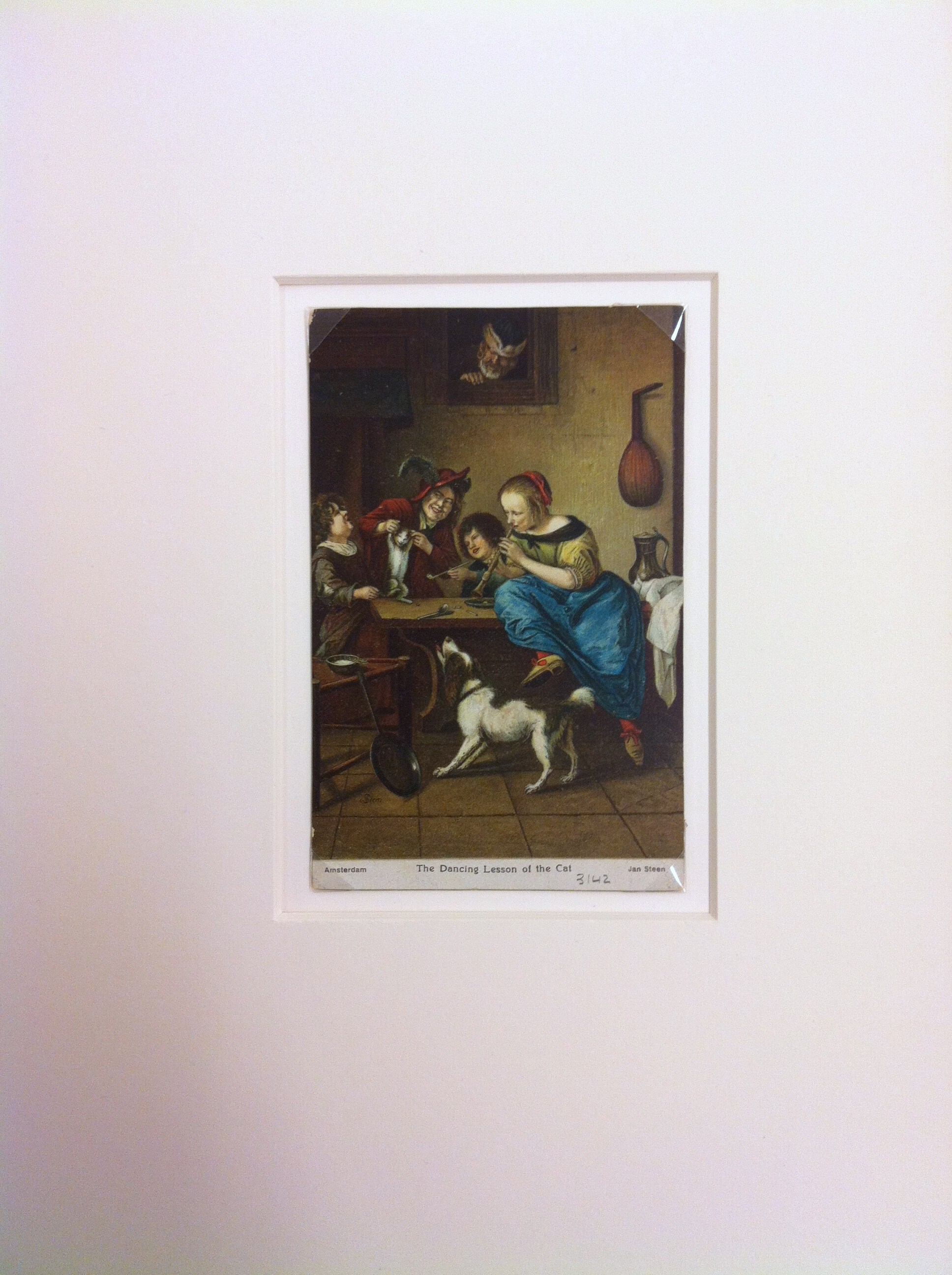 Joan Miró Global Challenge. Edit-a-thon, Fundació Miró 2014